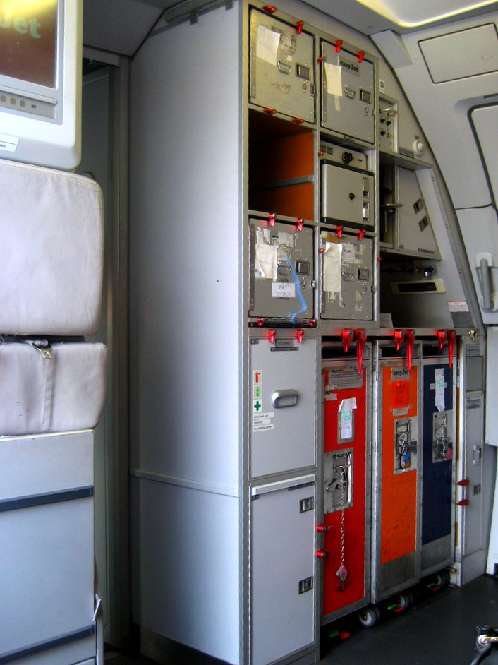 Forward galley of an easyJet A319.